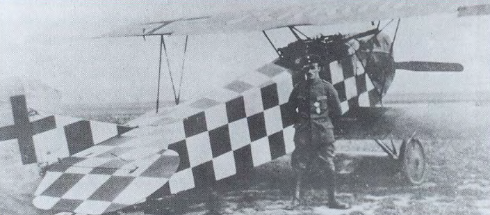 WillY Hippert beside your Jasta 74 Fokker D.VIIf 505/18 with the typical chequerboard painting